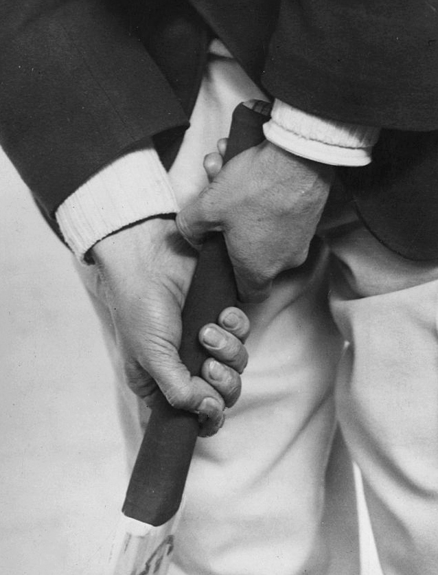 circa 1925: English batsman Jack Hobbs (1882 - 1963) gripping his cricket bat.